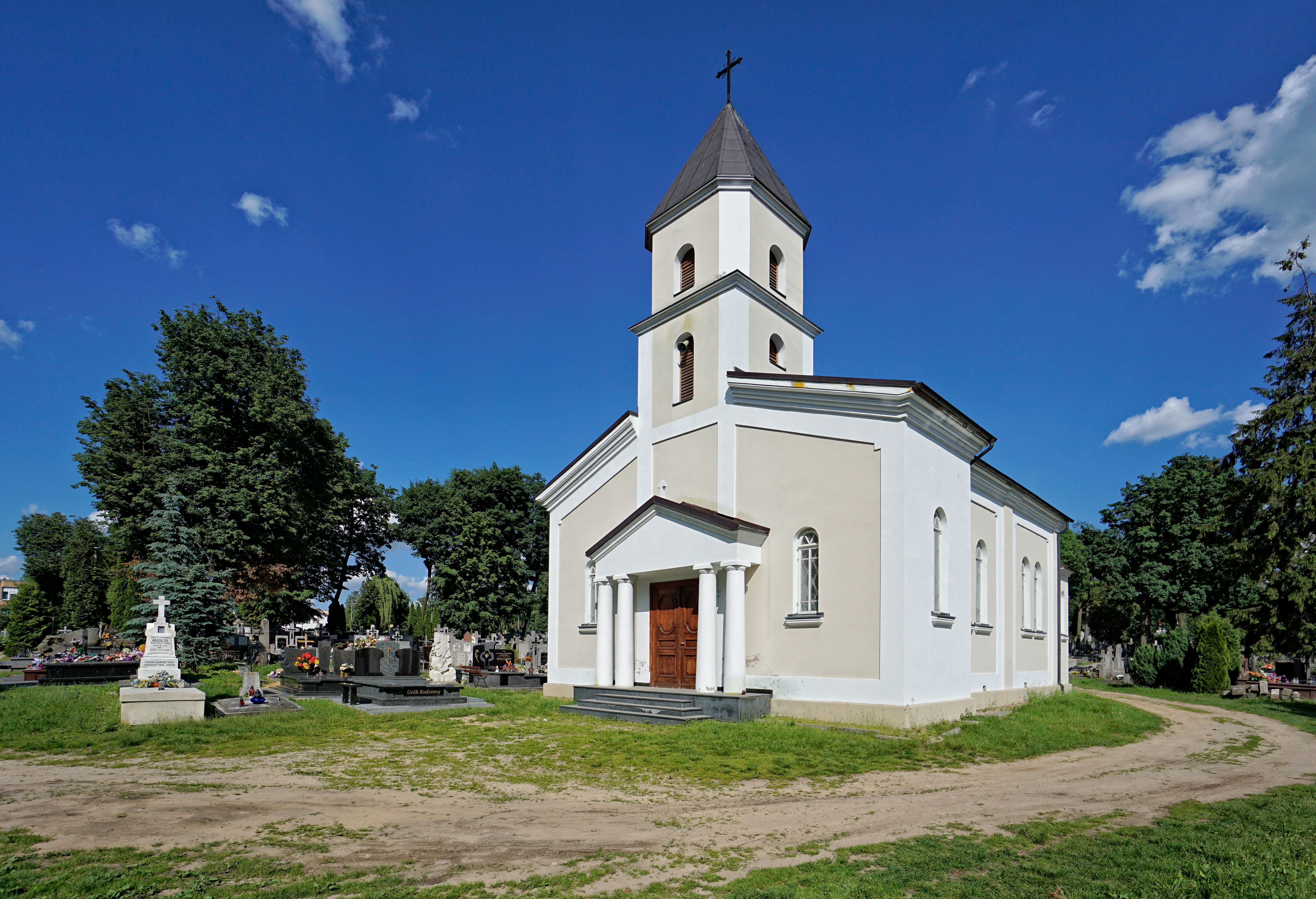 The former orthodox chapel in the cathedral cemetery in Łomża (Poland) 11.1985.